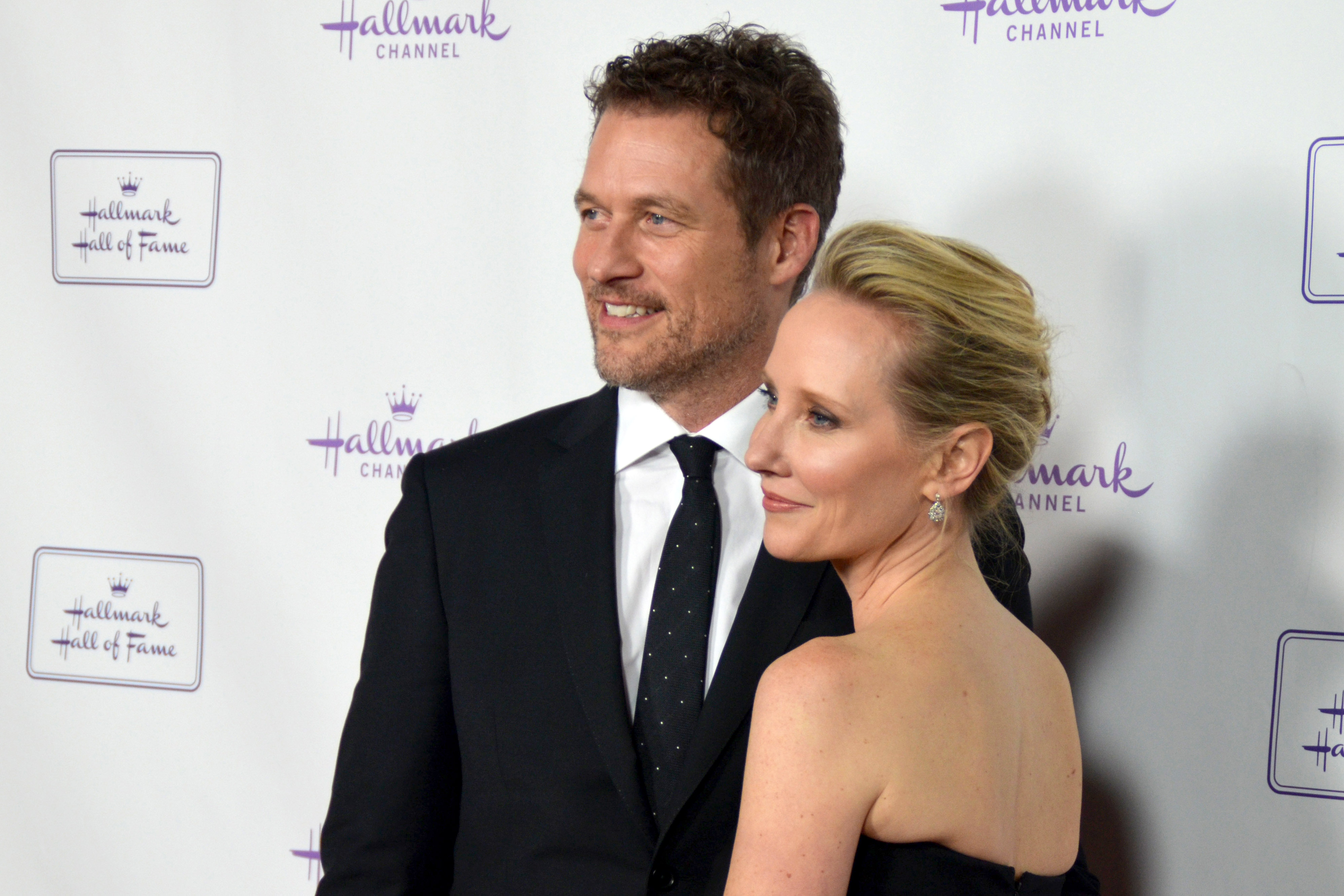 James Tupper & Anne Heche at the Hallmark Hall of Fame “One Christmas Eve” Los Angeles Premiere event at the Fig & Olive in Hollywood.